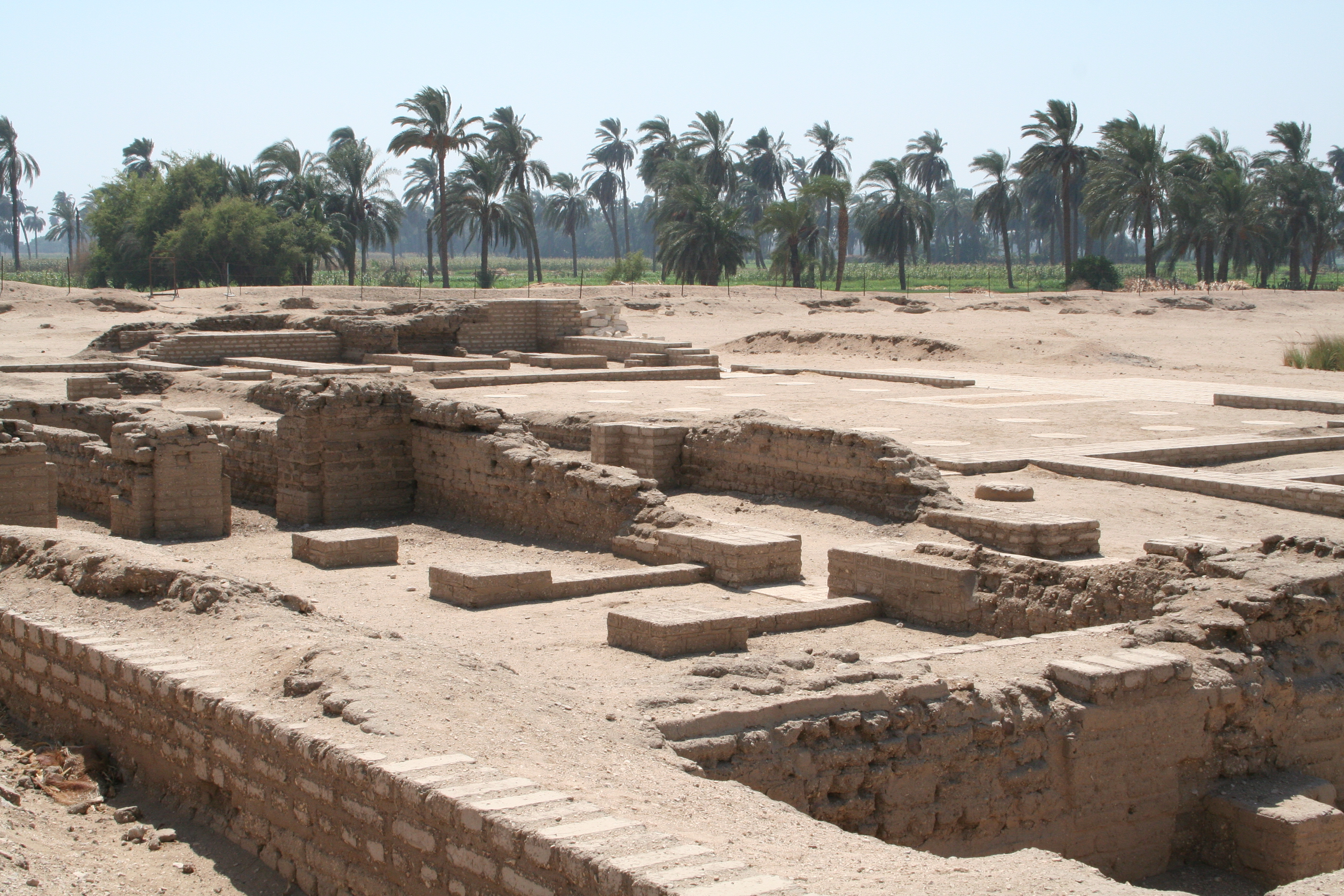 North Palace at Tell el-Amarna